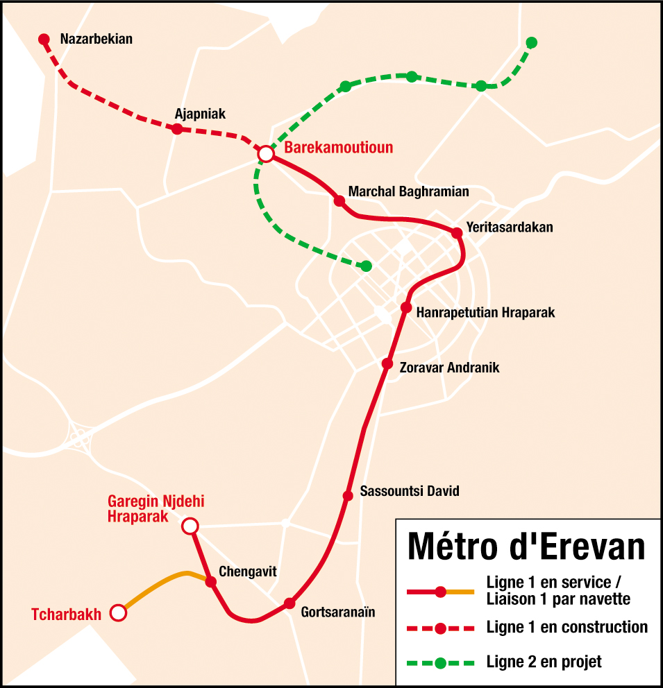 The Erevan Metro map